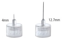 Side by side comparison of a 4mm pen needle with a 12.7mm pen needle